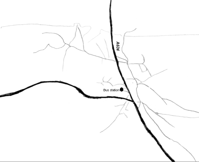 Map of Hayfield, Derbyshire, showing bus station